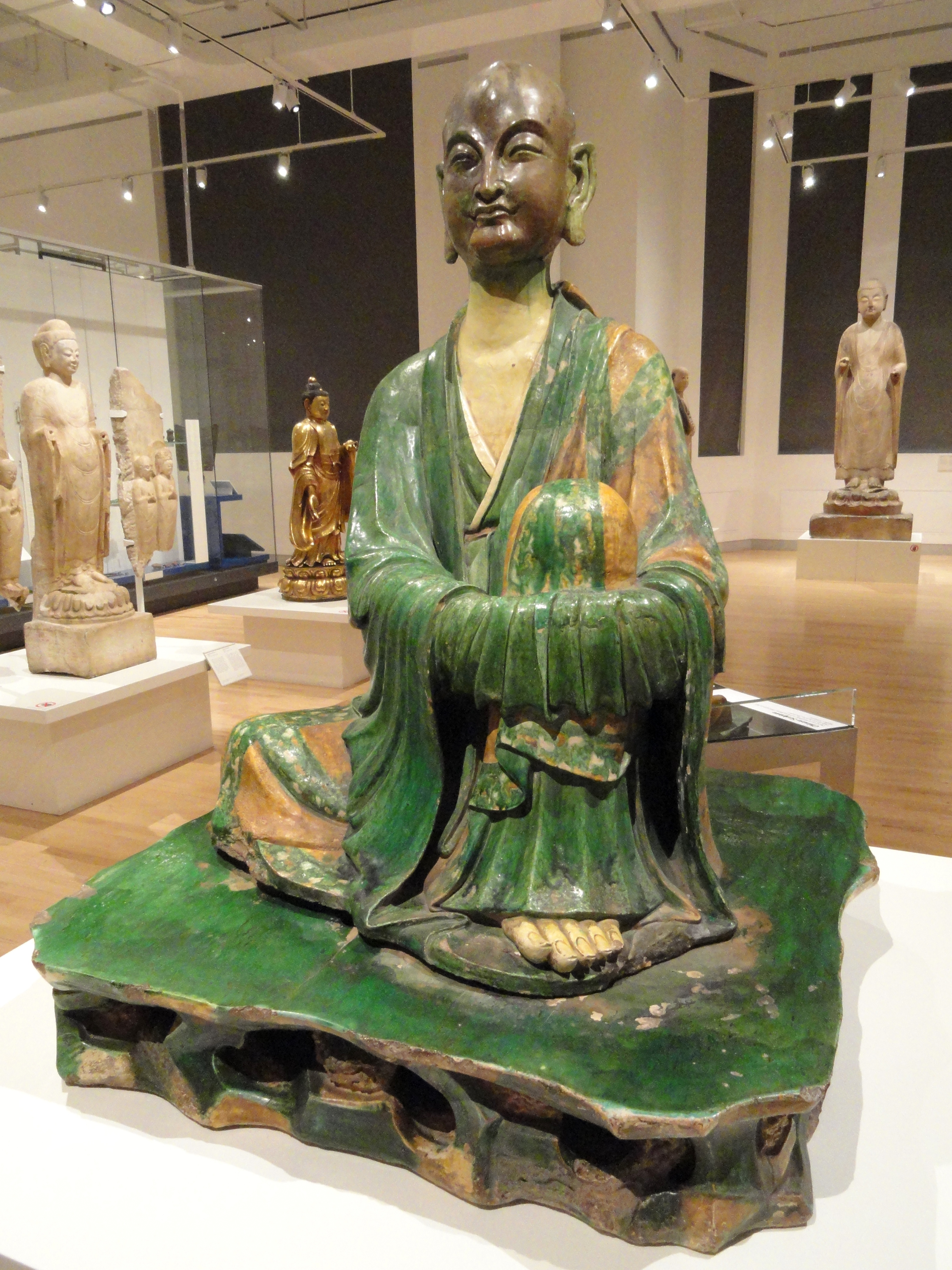 Exhibit in the Royal Ontario Museum, Toronto, Ontario, Canada. This exhibit is old enough so that it is in the public domain, and photography was permitted in the museum. I took this photograph and release it into the public domain.